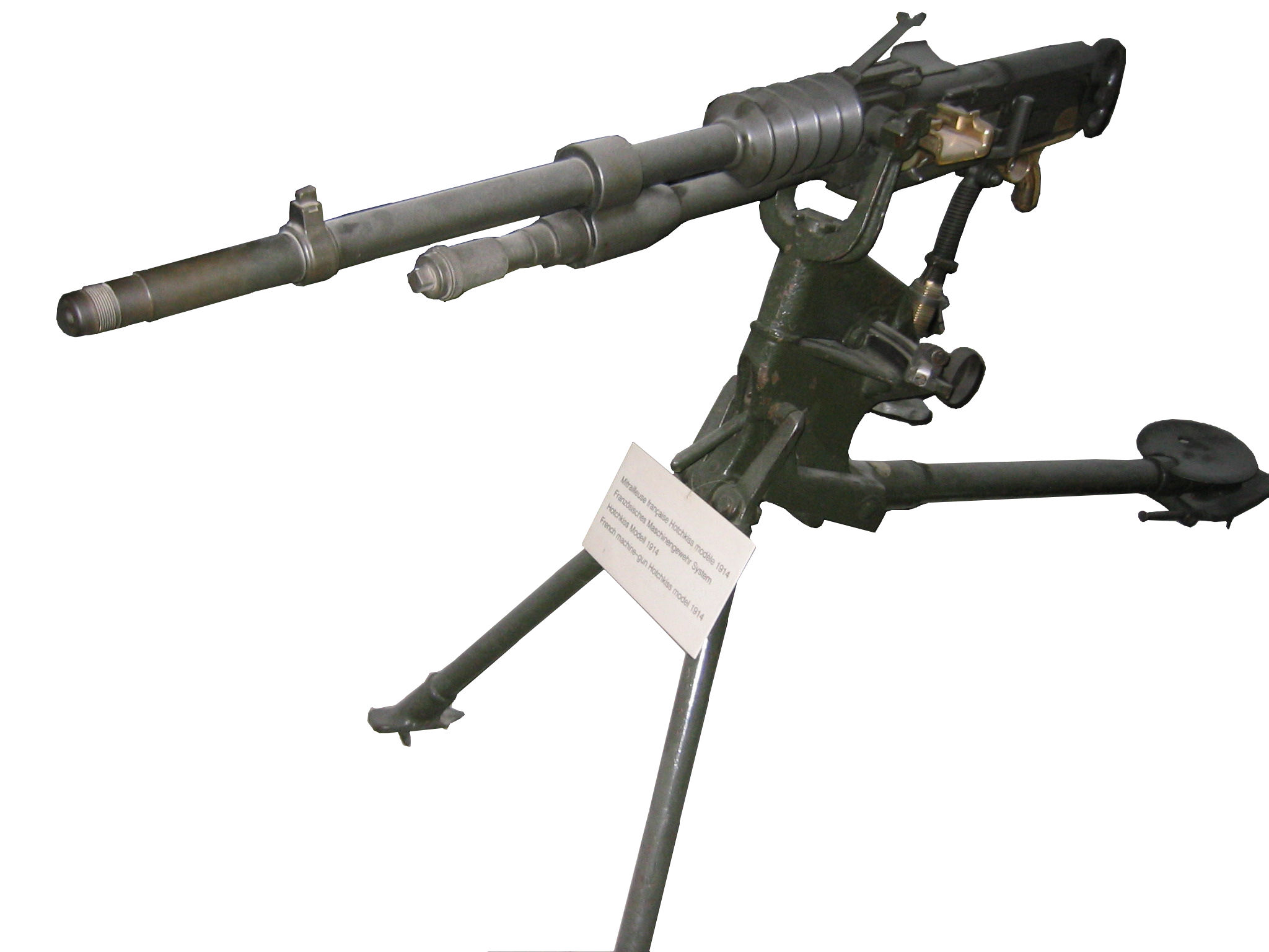 French machine-gun Hotchkiss model 1914 (in coll. Mémorial de Verdun)